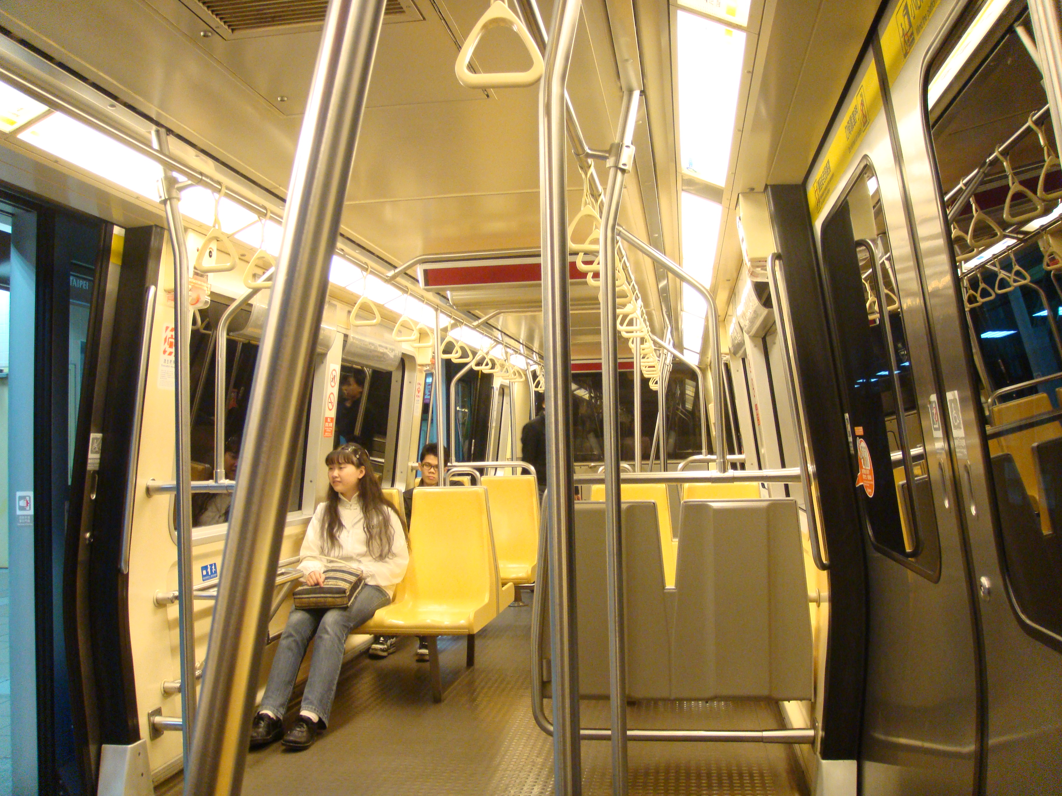 Center section of the VAL 256 interior, Muzha Line, Taipei Metro, Taiwan.